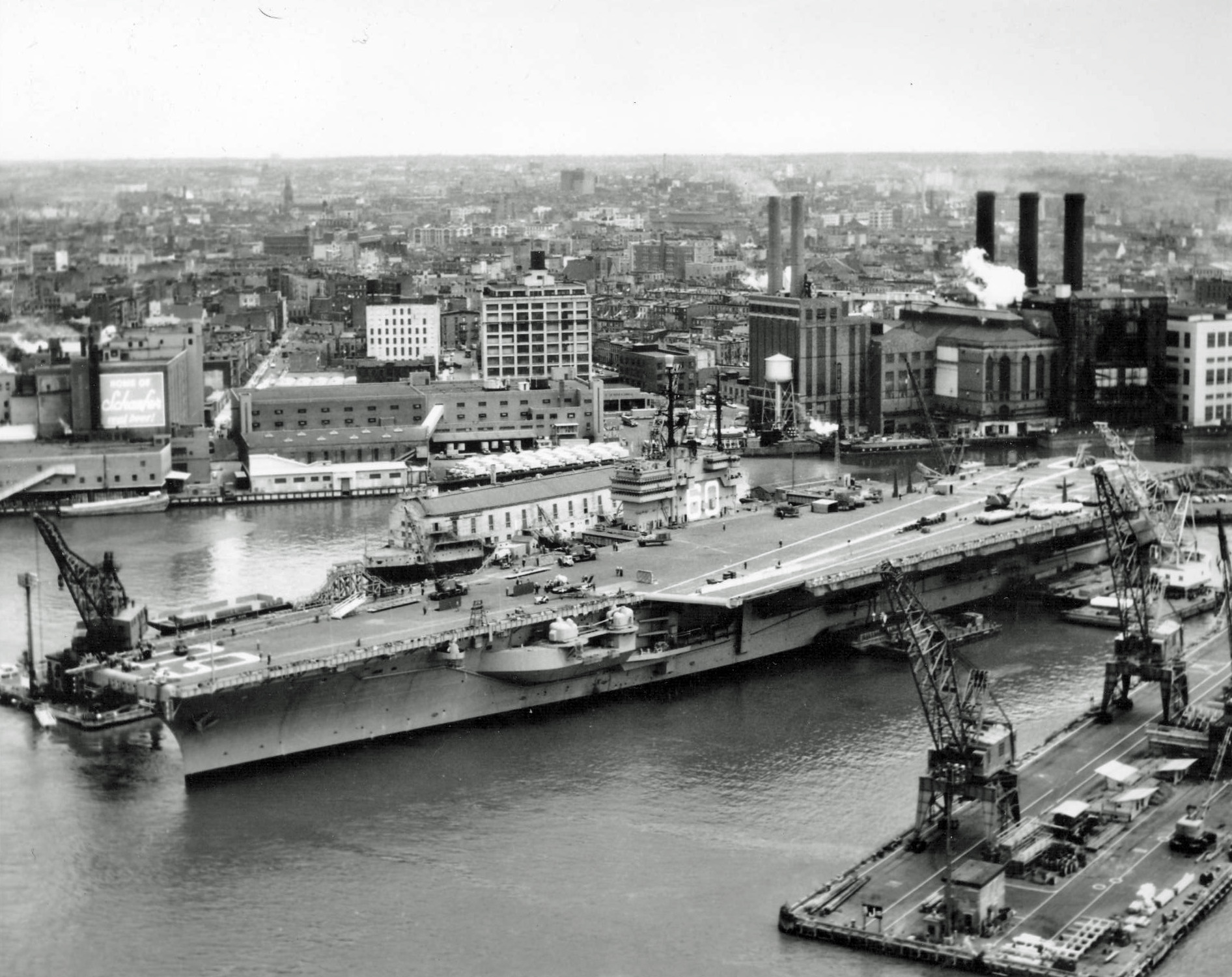 The U.S. Navy aircraft carrier USS Saratoga (CVA-60) in the New York Naval Shipyard, May 1956. Note the Regulus I missile on the port forward catapult.